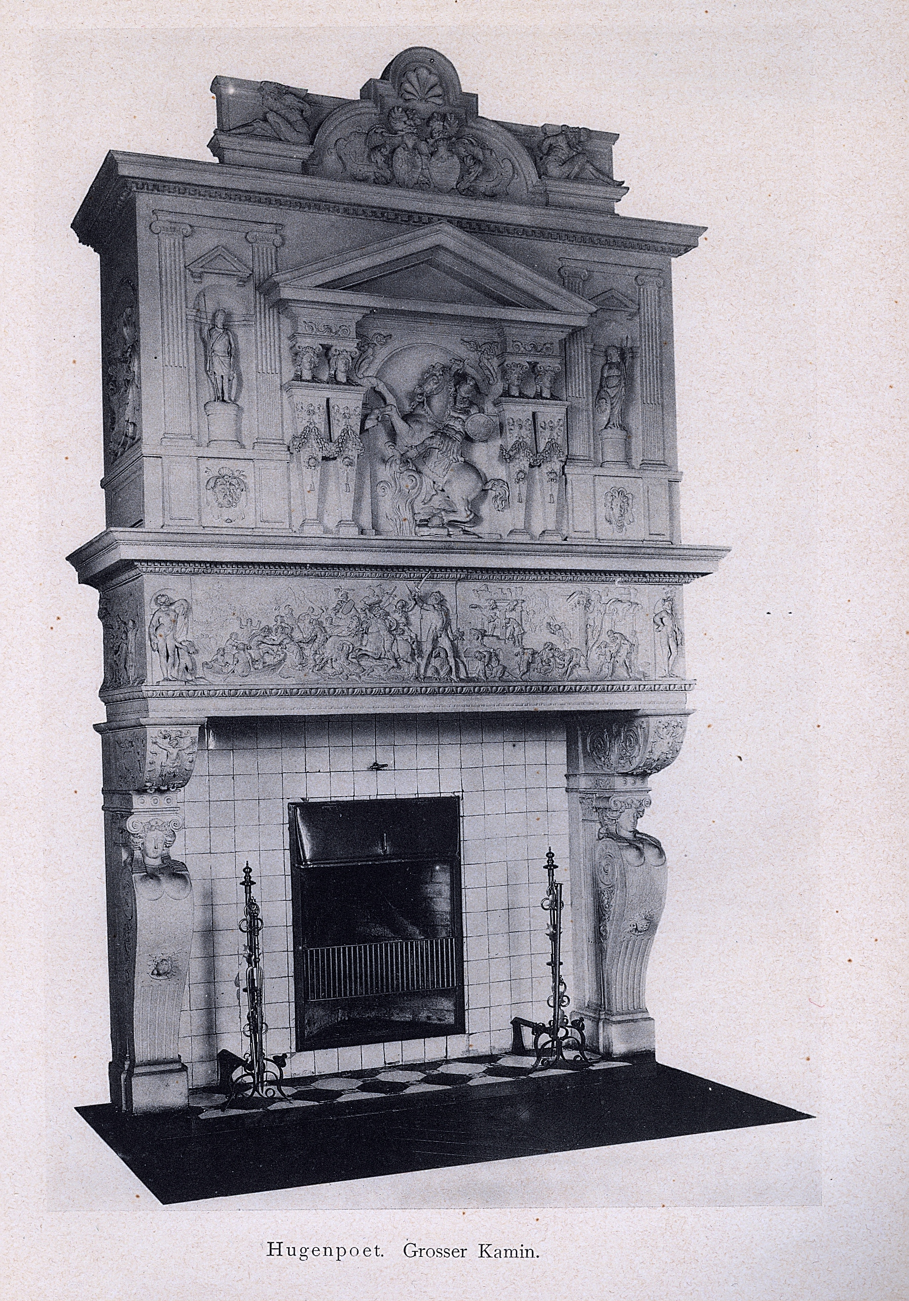 t